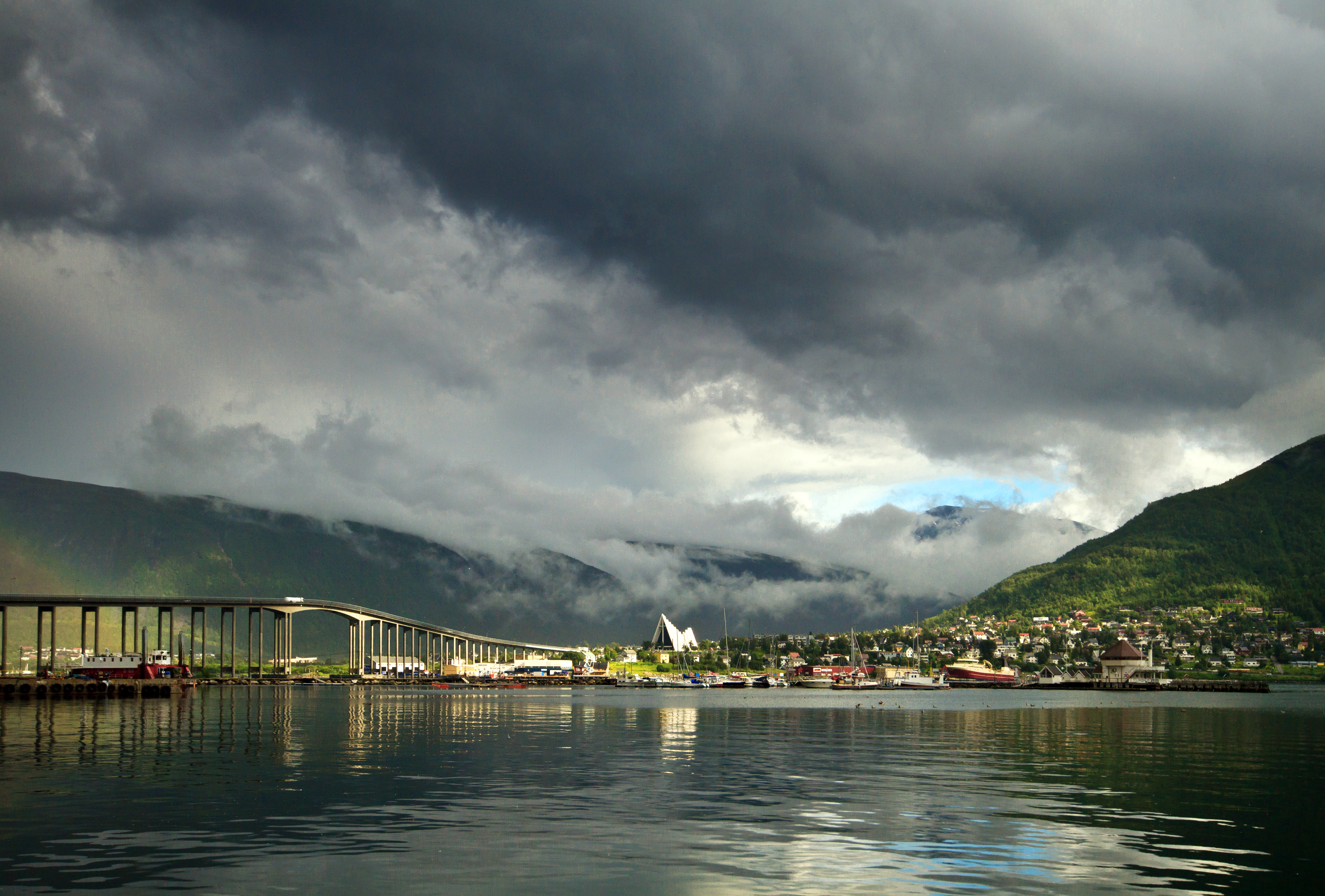 Bildet kan fritt lastes ned. Vennligst krediter fotograf. --- This image may be downloaded for commercial and non-commercial use. Please credit the photographer. Foto / Photo Credit: Mark Ledingham, Tromsø kommune.